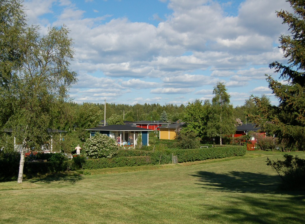 Garden allotments at Markkuu, Oulu, Finland.